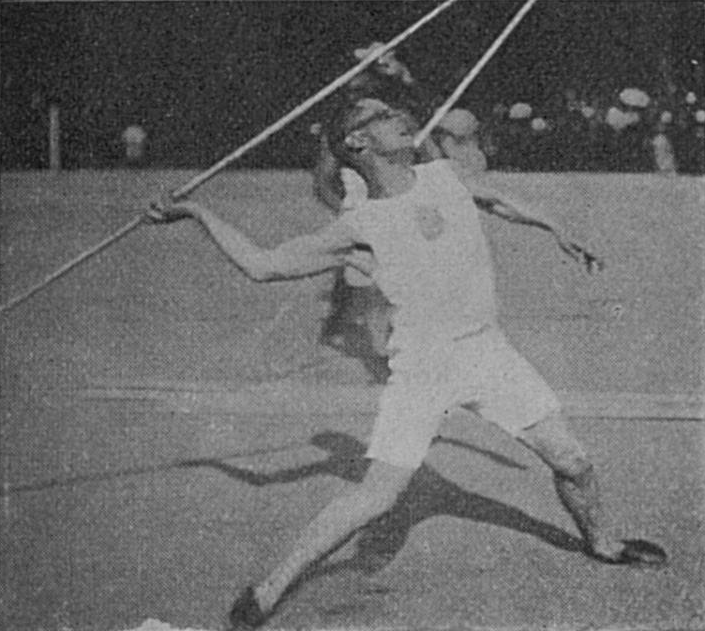 Armas Pesonen, a Finnish javelin thrower and Olympian, in competing for the Finnish championship in javelin in 1909